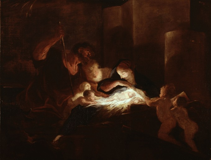 Nativity